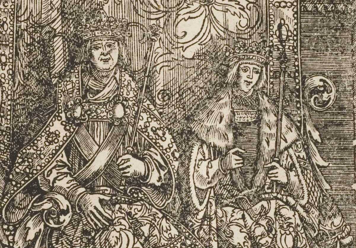 See title